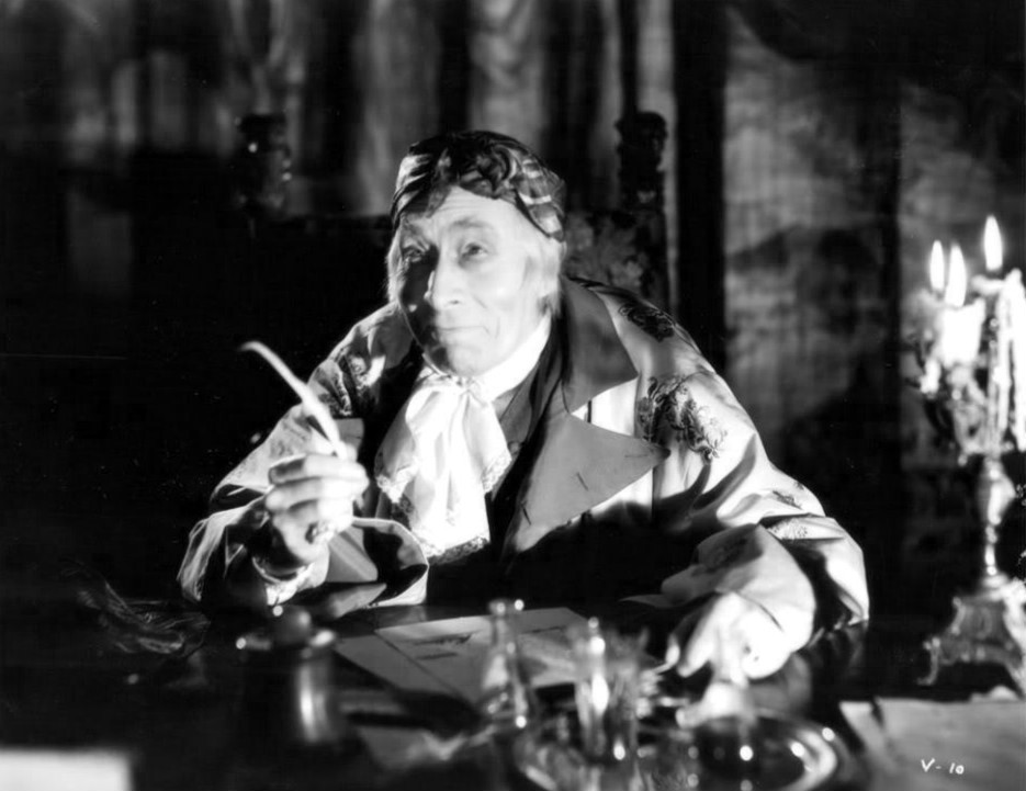 Promotional photograph of George Arliss from the movie Voltaire.